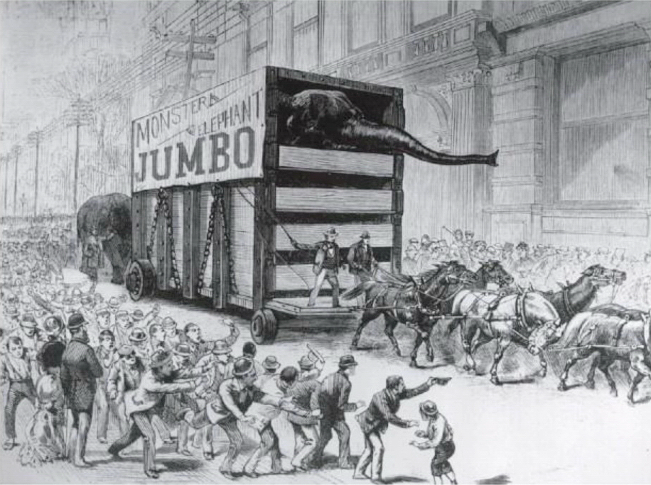 Jumbo's arrival in New York